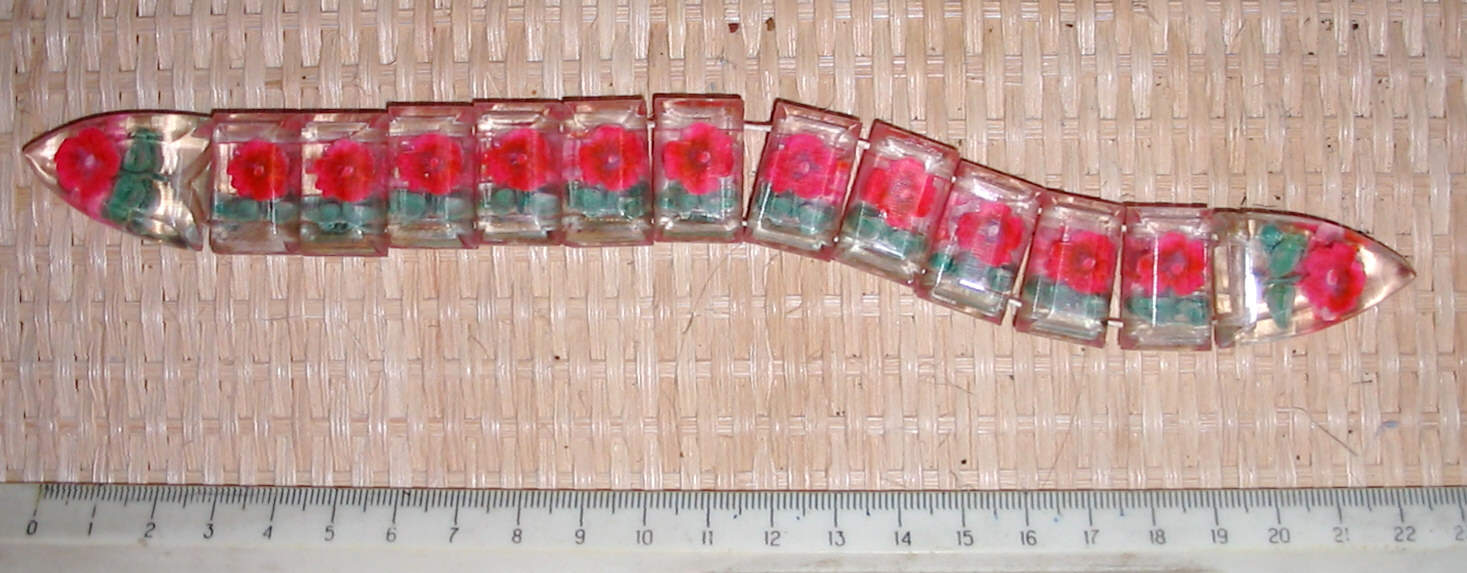 Russian prisoner's flat prayer beads "Chotki-boltuhi"